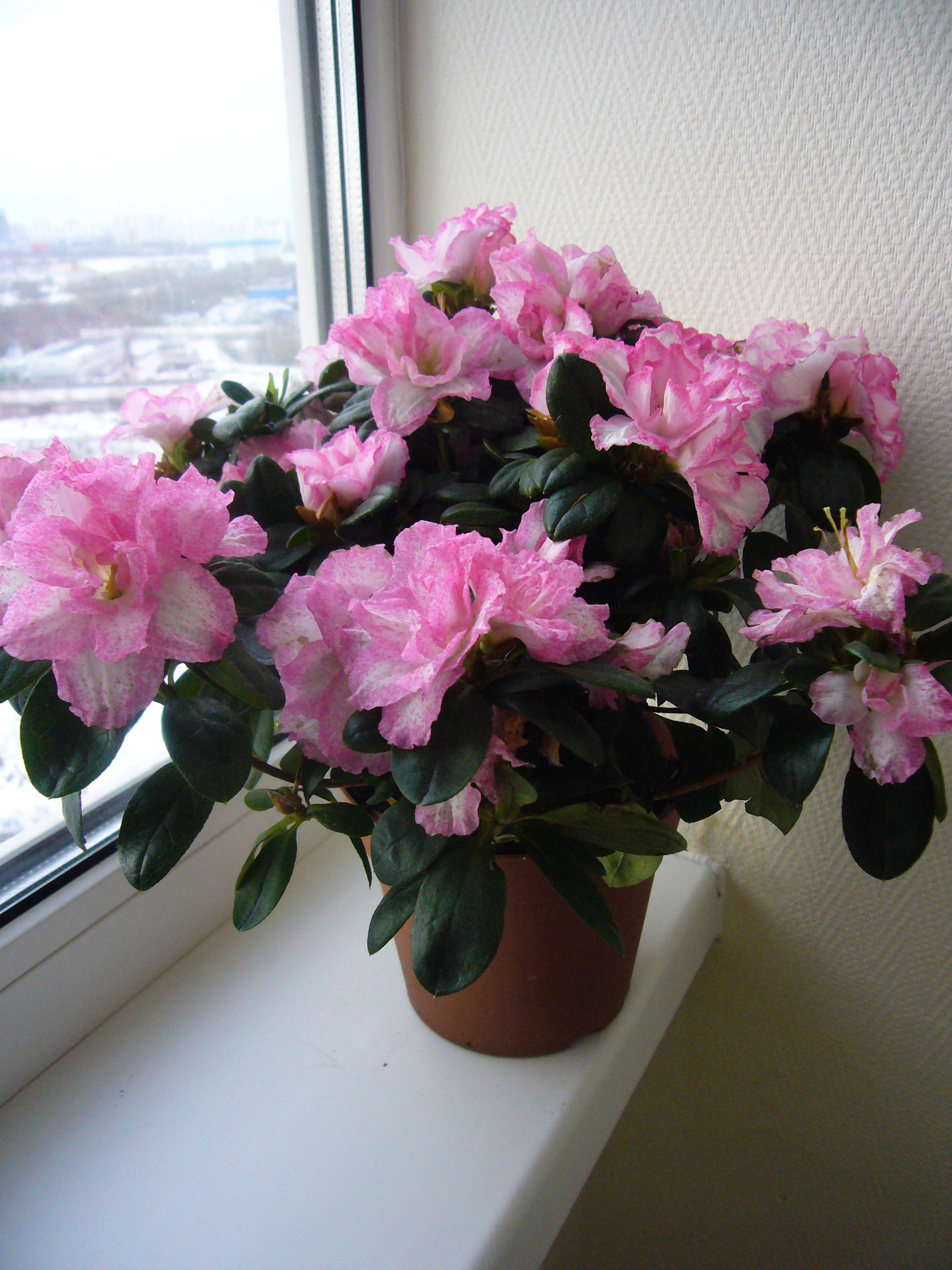 Azalea Mevrouw Gerard.